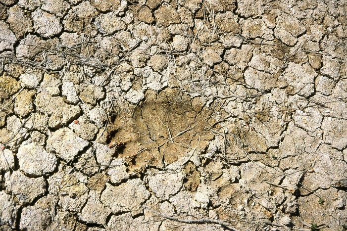 Footprint of a brown bear in Kamchatka.